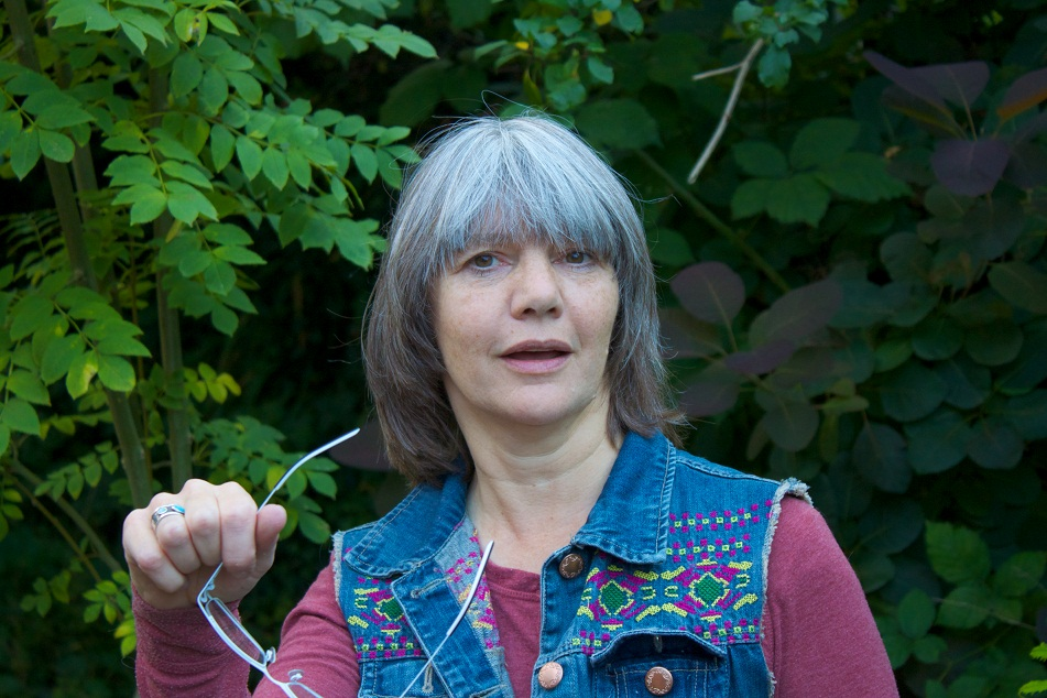 Picture of Pery in her garden, 2012.